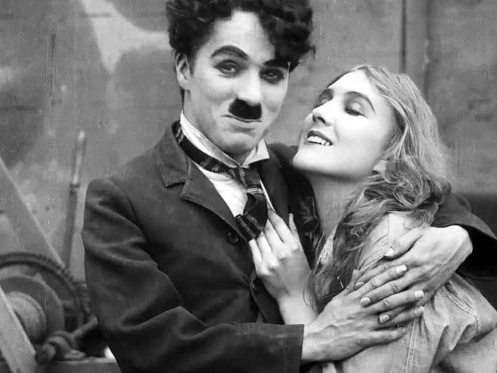 This is a shot of the end of Behind the Screen.